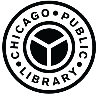 New Seal for the Chicago Public Library System